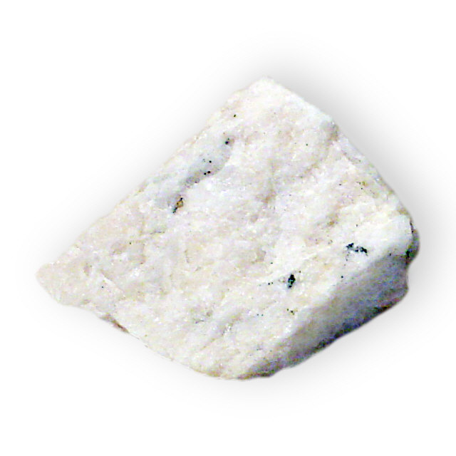 These mineral images are free to use how you wish.